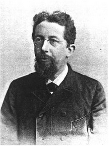 Karl Moritz Schumann (1851–1904), German botanist, professor and curator of the Botanisches Museum in Berlin-Dahlem